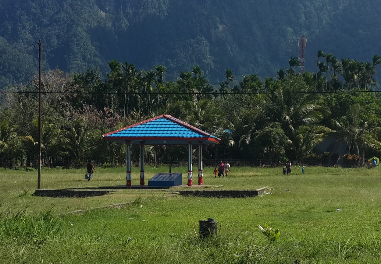 The tomb of Theys Uluay, Chairman of the Papua Presidium Council